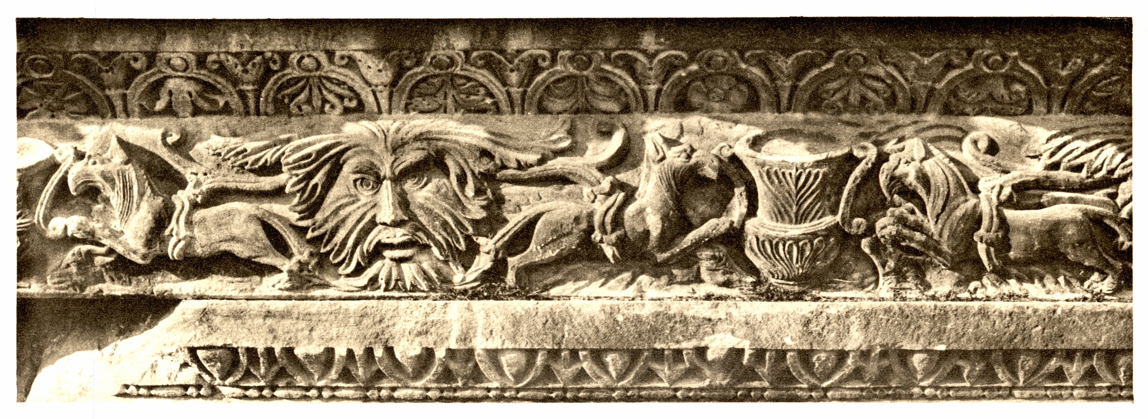 Frieze detail, Temple of Jupiter, Split.